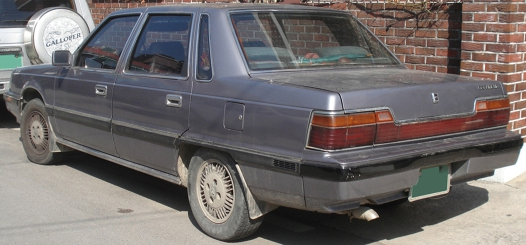 Hyundai Grandeur